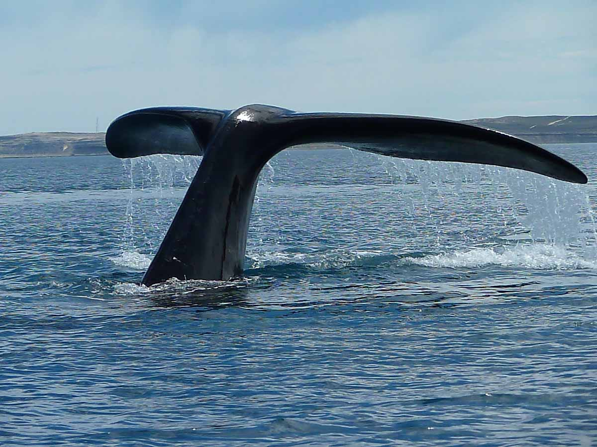 Southern right whale. Valdes Peninsula, Patagonia (Argentina).